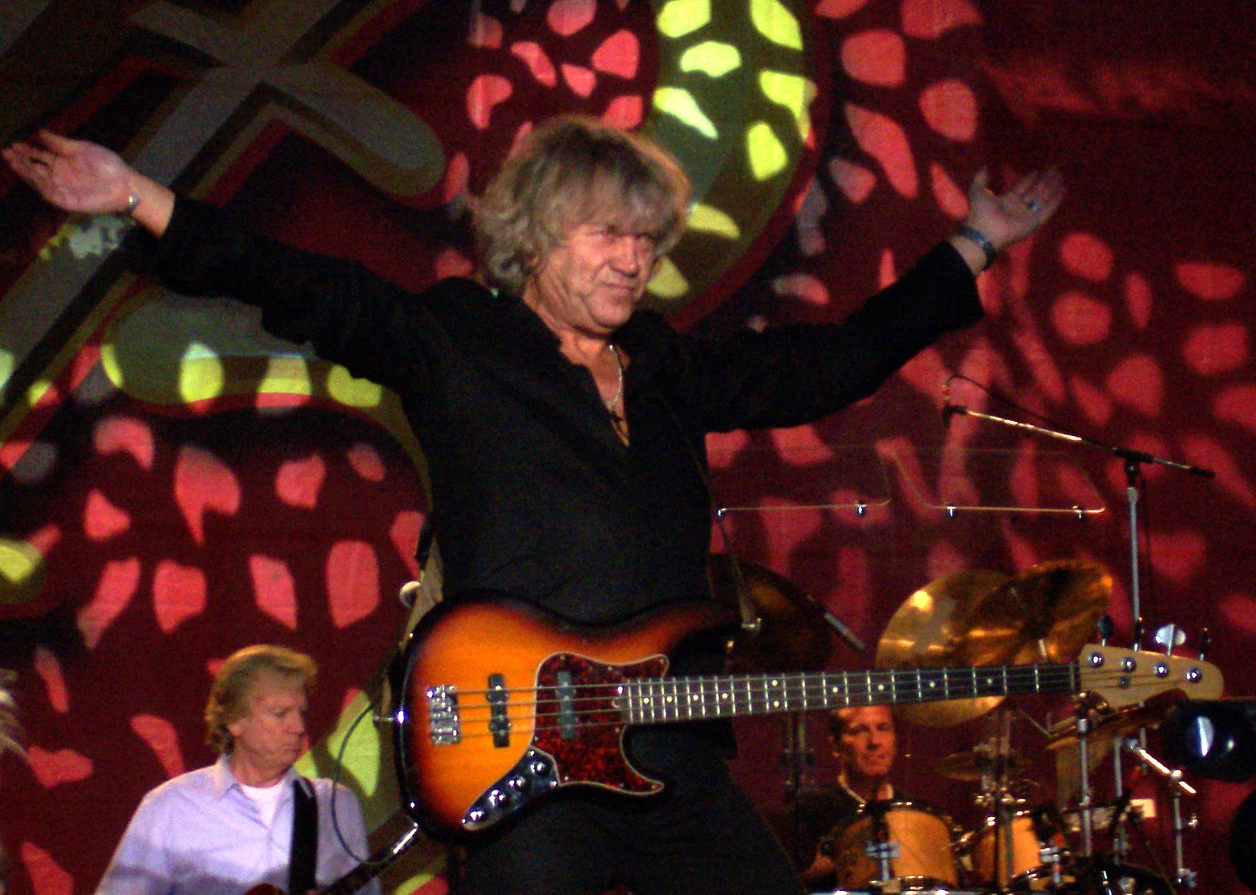 John Lodge from Moody Blues Moondance Jam concert 14/7/07